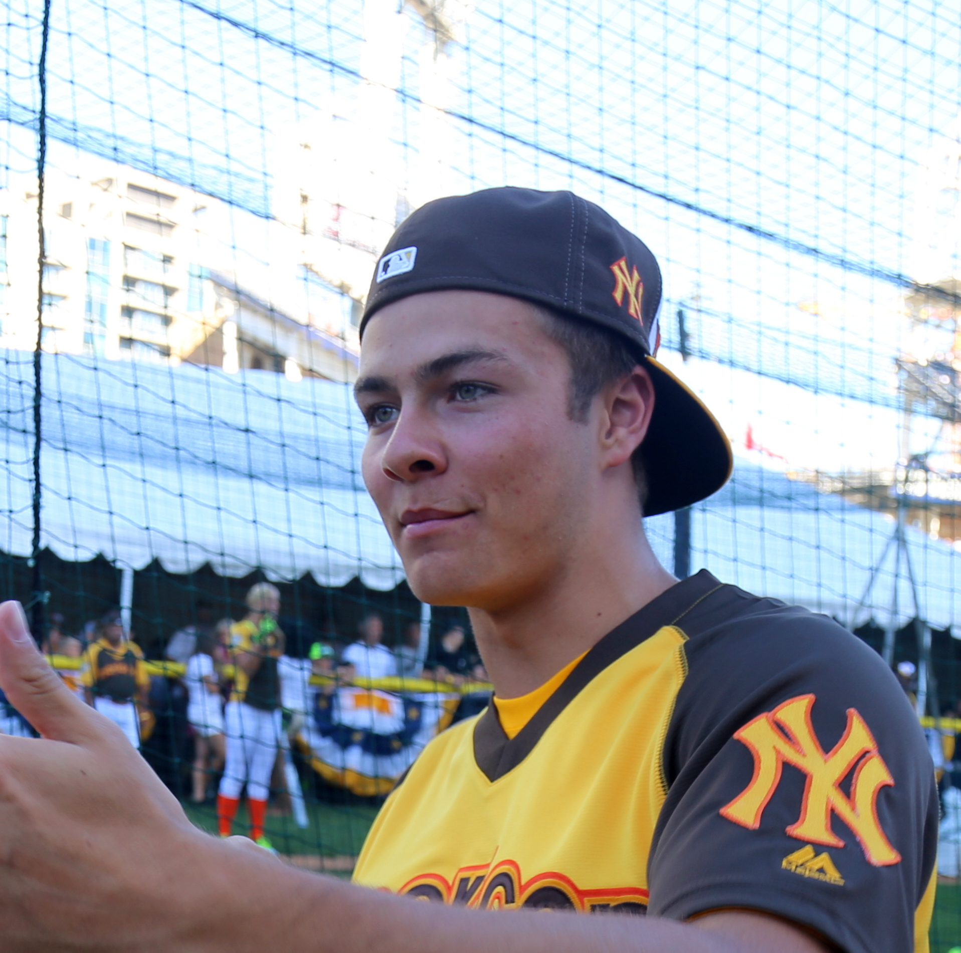 Peyton Meyer takes a selfie with the Snapbat.